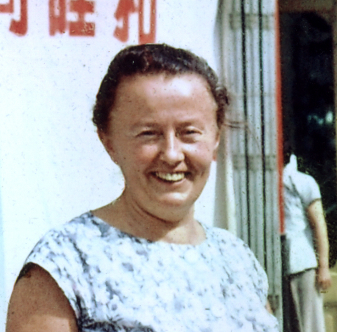 A picture of the german pedagogue Lisa Niebank in Peking, taken in 1966.